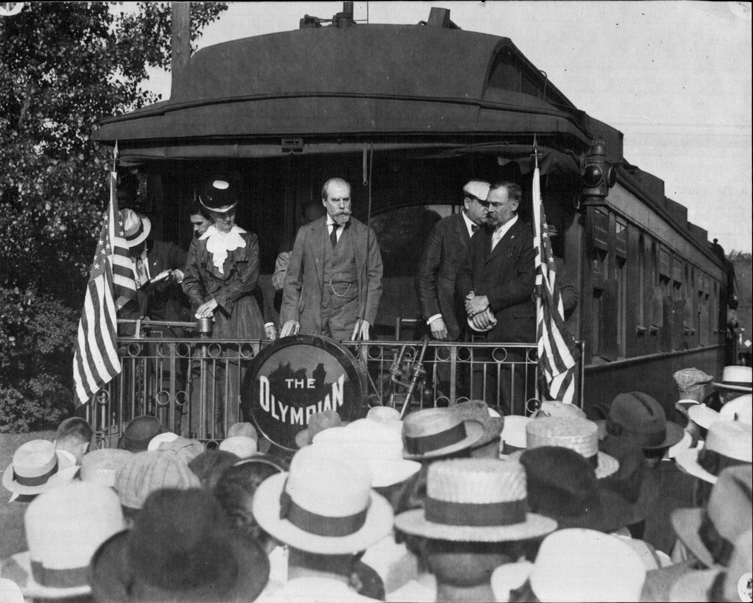 Photo of Charles Evans Hughes campaigning in Winona, Minnesota on the Milwaukee Road's Olympian.